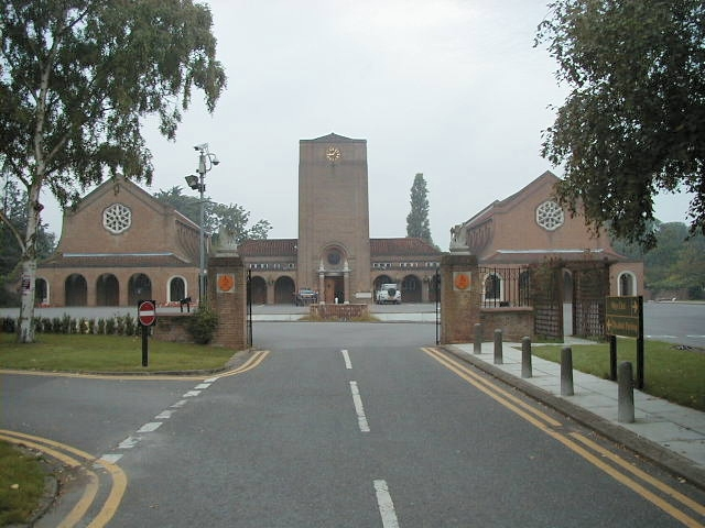 South West Middlesex Crematorium. Opened in 1954.